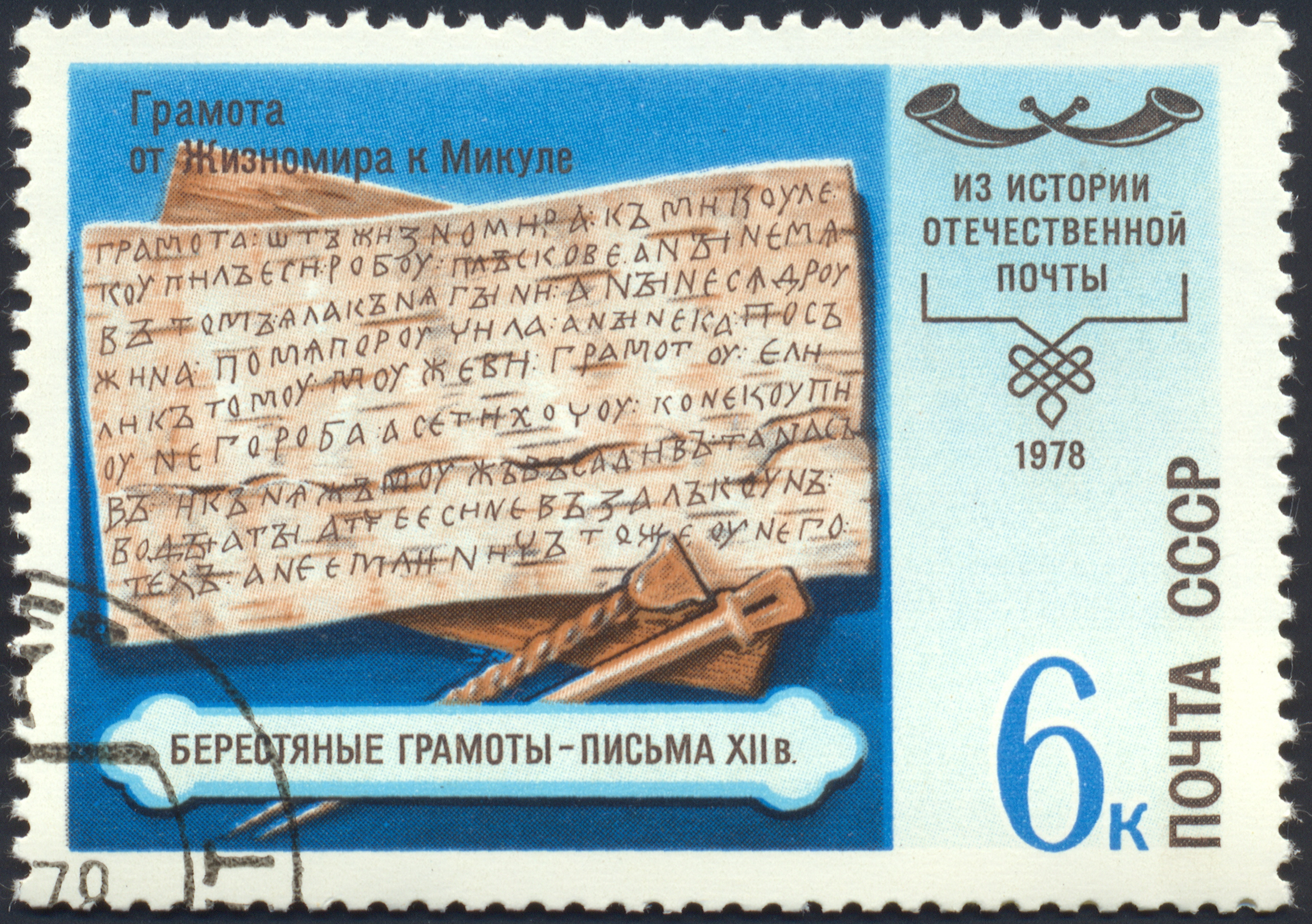 USSR stamp, Russian postal history, 1978, 6 kop.